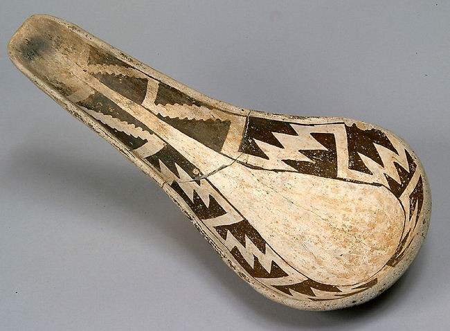 Ladle Chaco Anasazi Late Red Mesa Black-on-White Site number, 29SJ 627 AD 875-1040 Clay. L 27.3, W 11.5 cm, H [bowl] 3.8 cm Chaco Culture National Historical Park, CHCU 29079